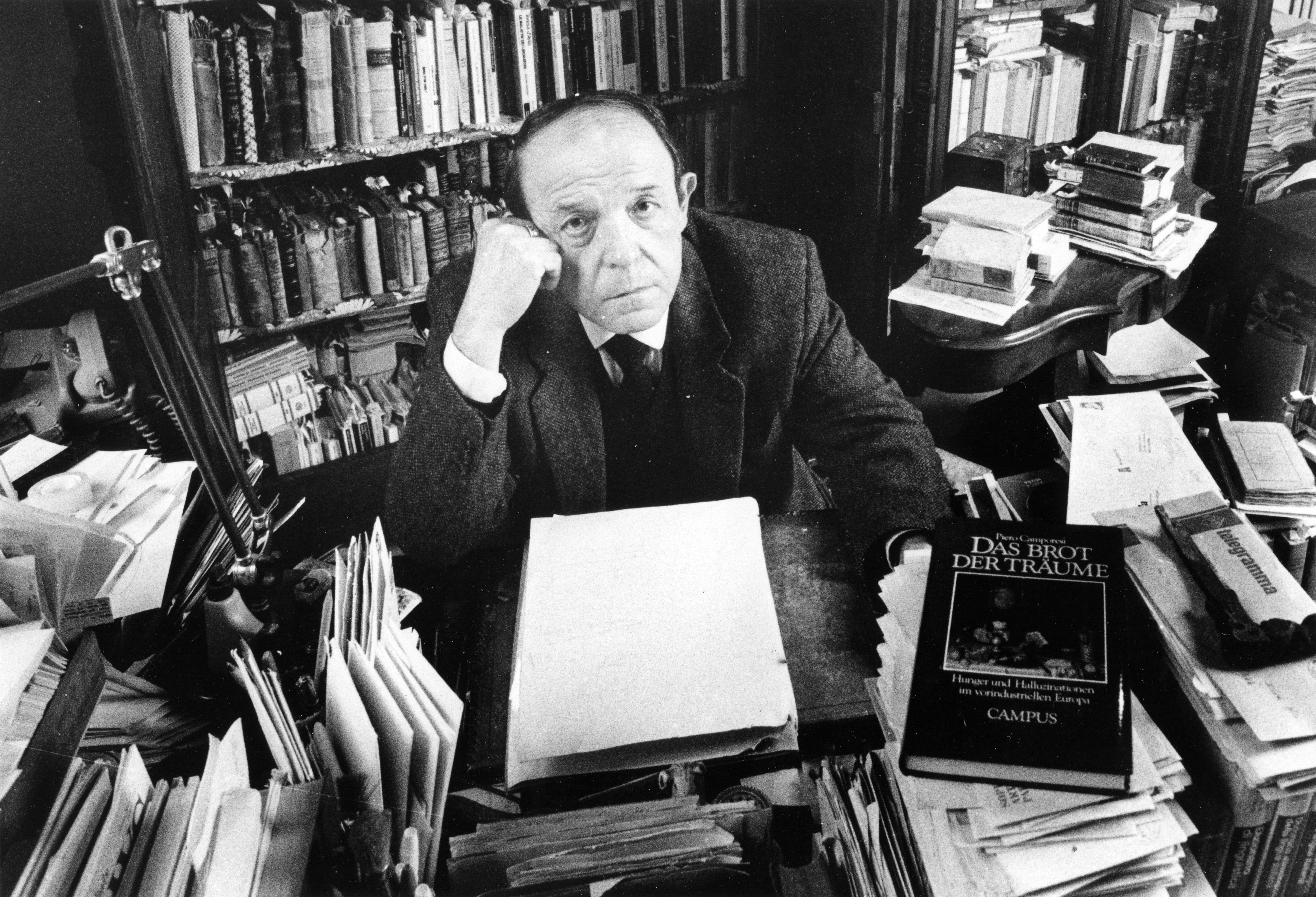 Piero Camporesi in his study